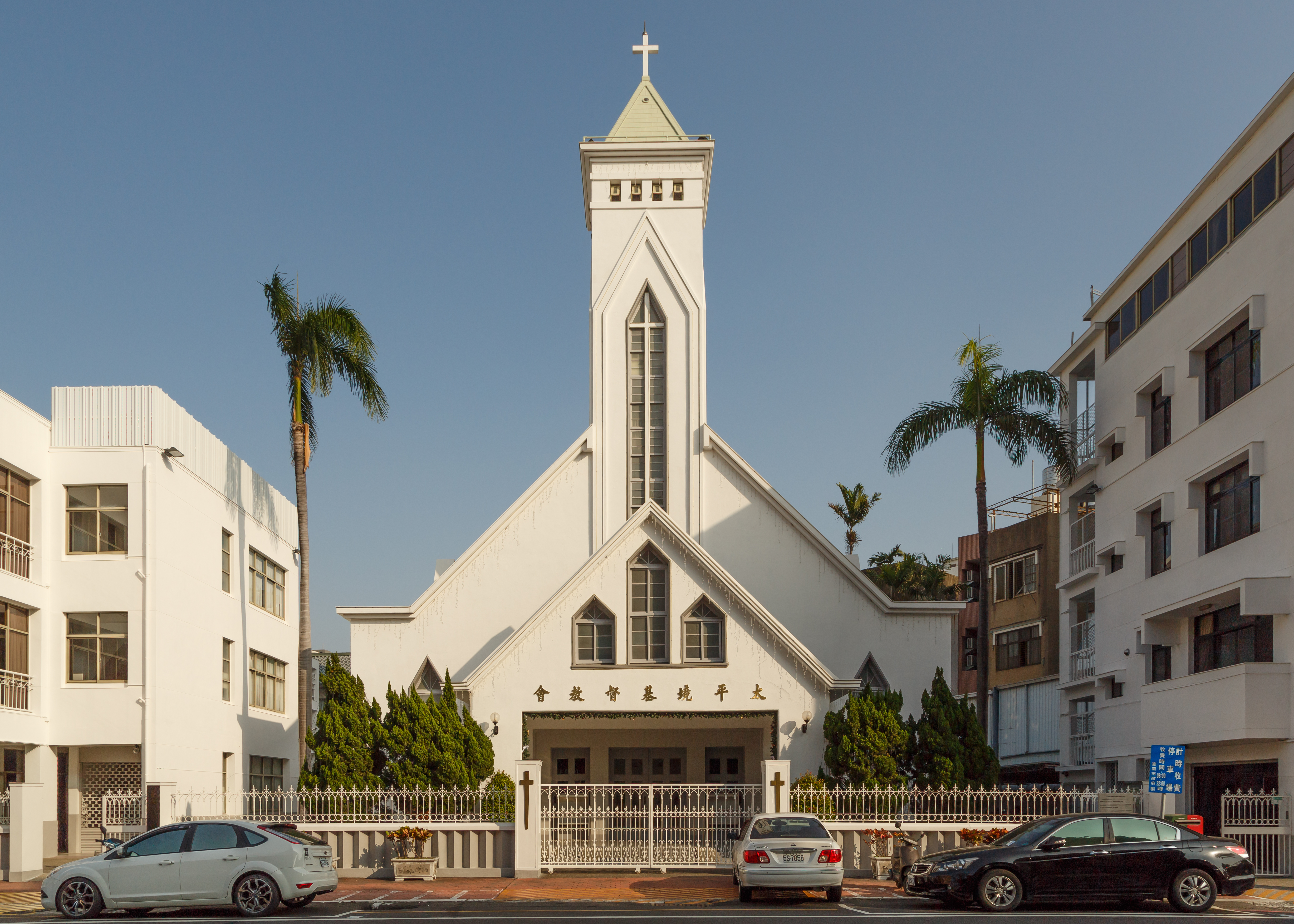 Tainan, Taiwan: Thai Peng Keng Maxwell Memorial Church